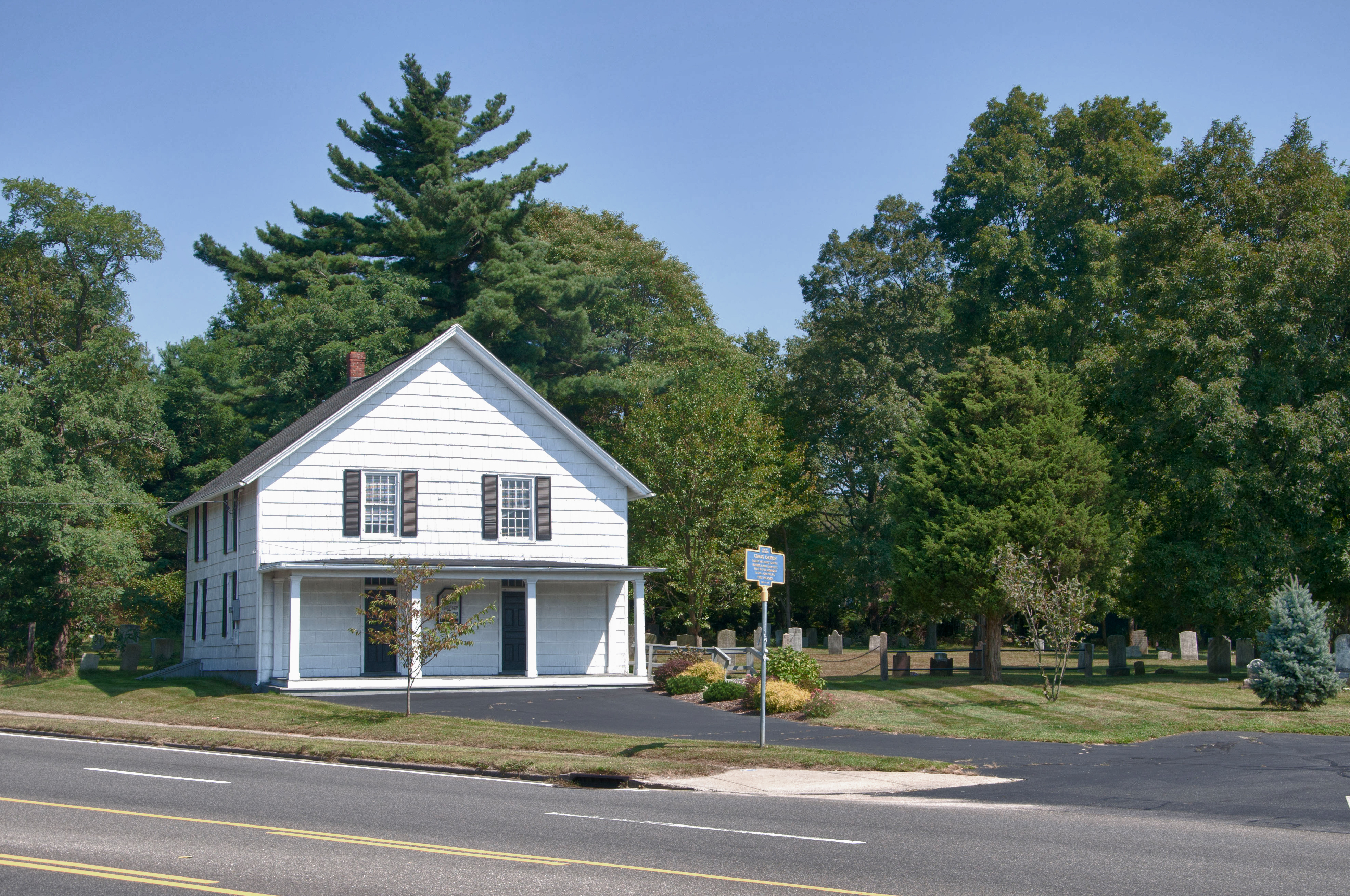 The Commack Methodist Church and Cemetery, as seen from Townline Road. Built in 1789 as Comac Church, it is the oldest Methodist Church building in New York State. Commack Methodist Church and Cemetery